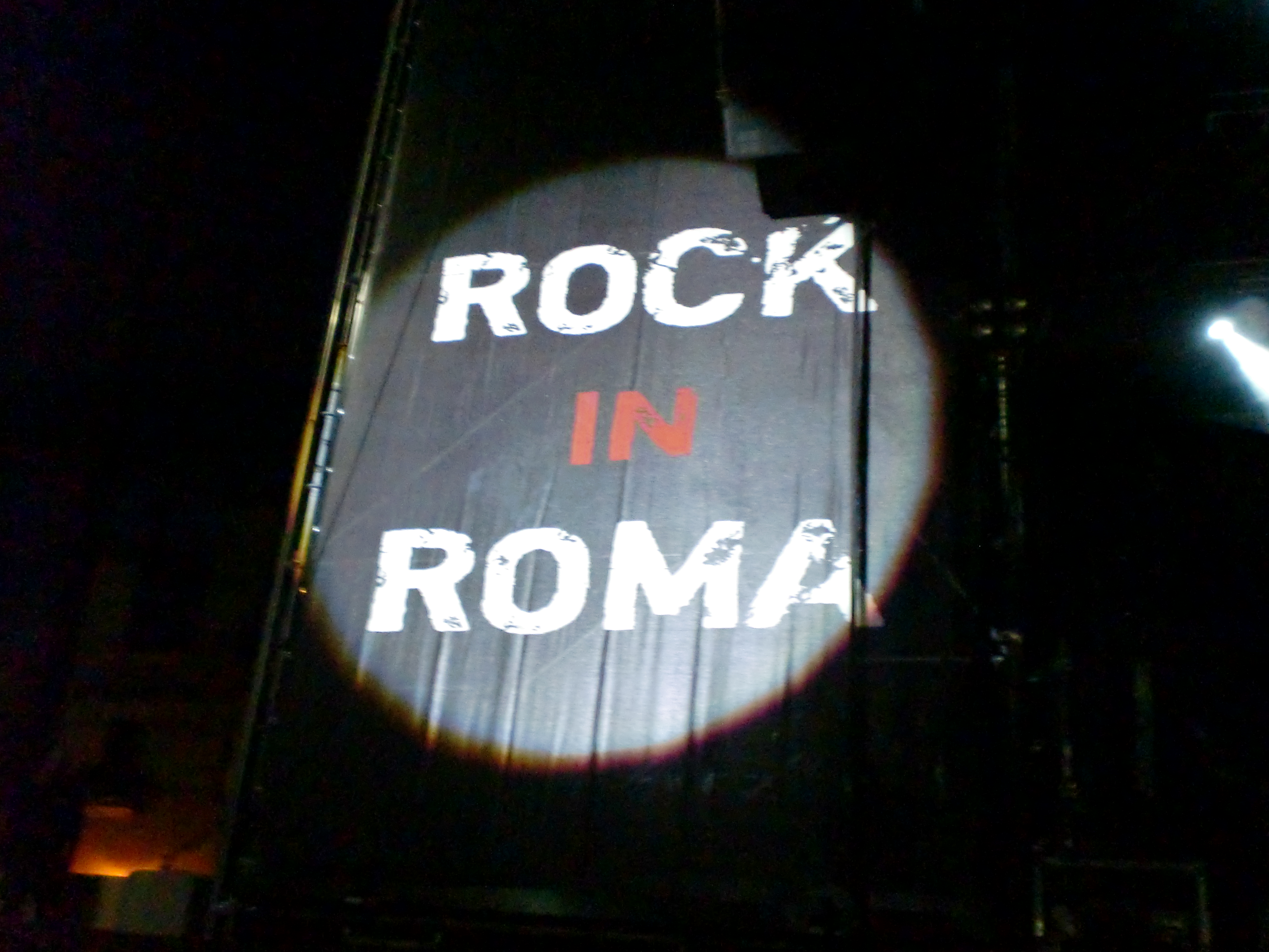 Rock in Roma Festivaò